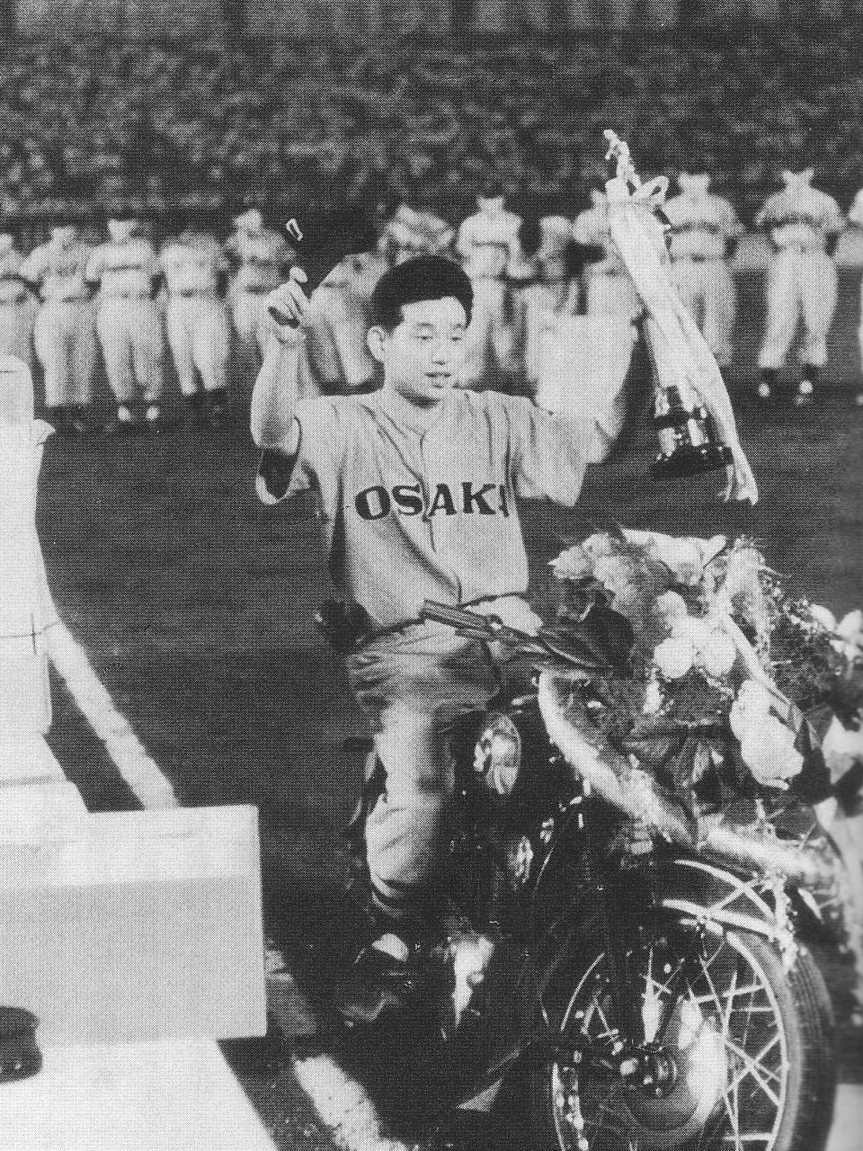 Yoshio Yoshida in NPBaseball All-Star Series, 1956.